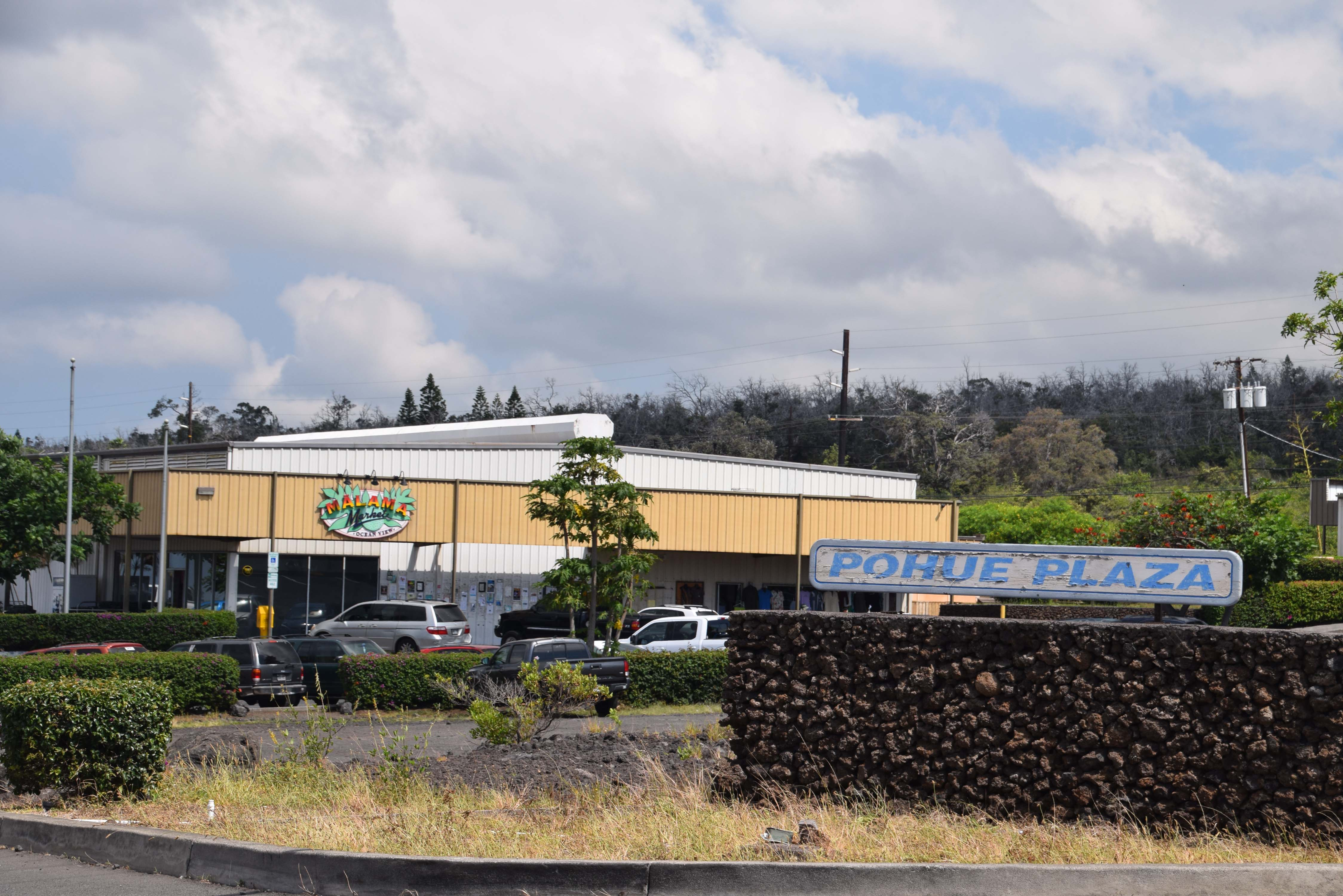 Another shopping center in Ocean View, Hawaii